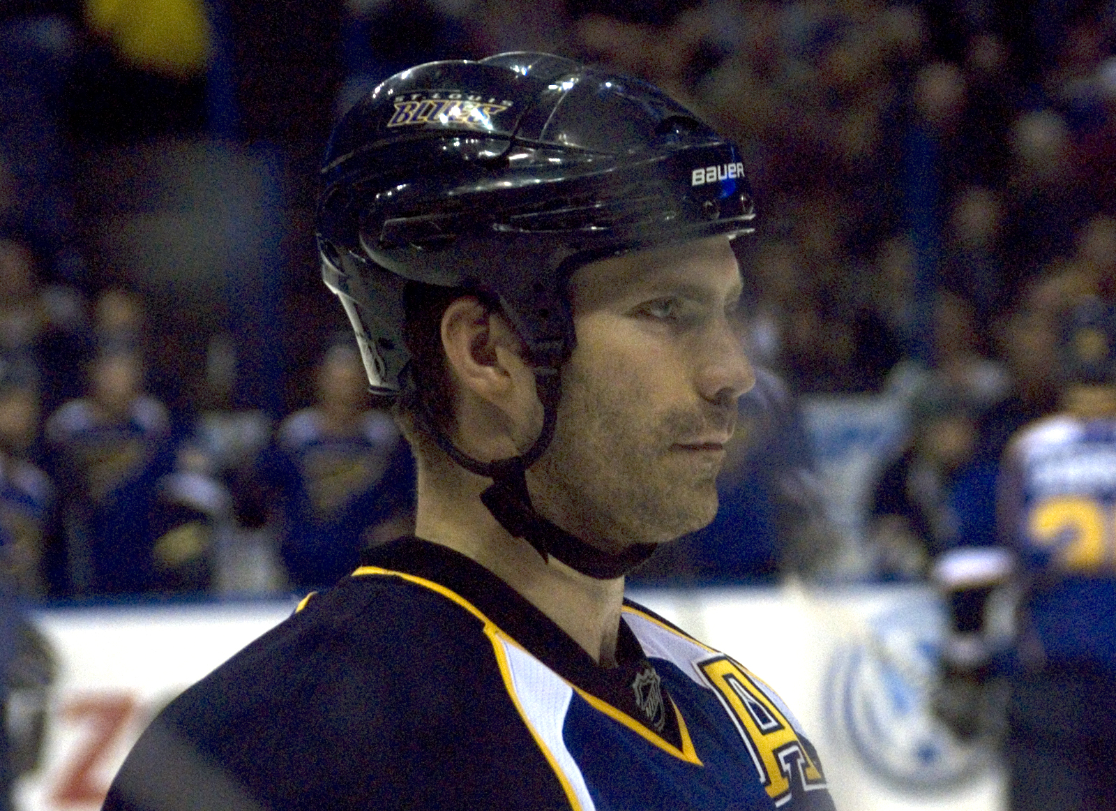 ERI_4705 Anaheim Ducks versus St. Louis Blues. National Hockey League (NHL) Blues won 9-3 at Scottrade Center in St. Louis, Missouri. Taken by Sarah Connors on February 19, 2011 in using a Nikon D200. This photo also appears in Sarah Connors' Flickr set "Blues vs. Ducks, 2/19/11" (Set of 105).